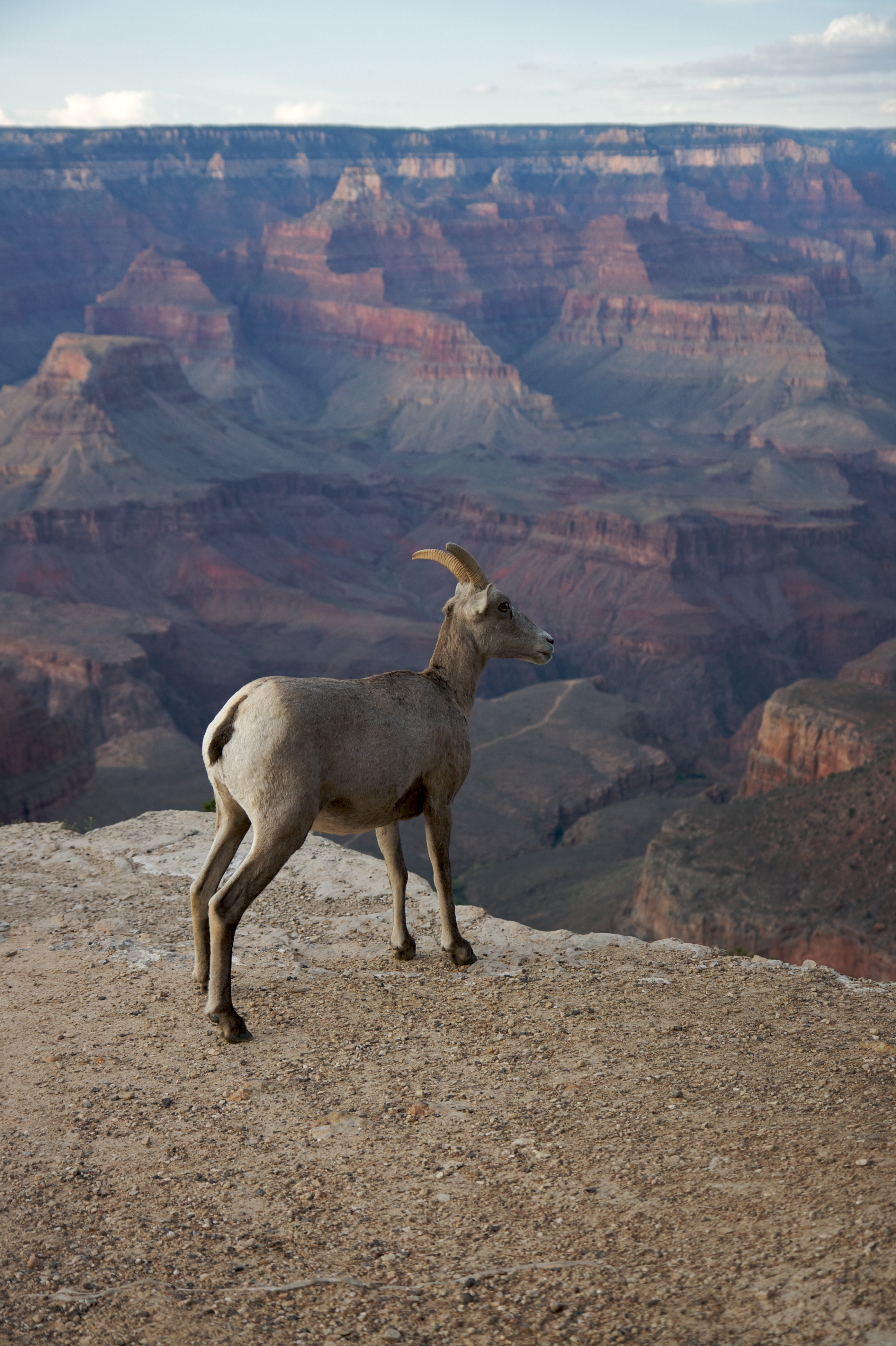 A Bighorn Sheep in front of the Grand Canyon